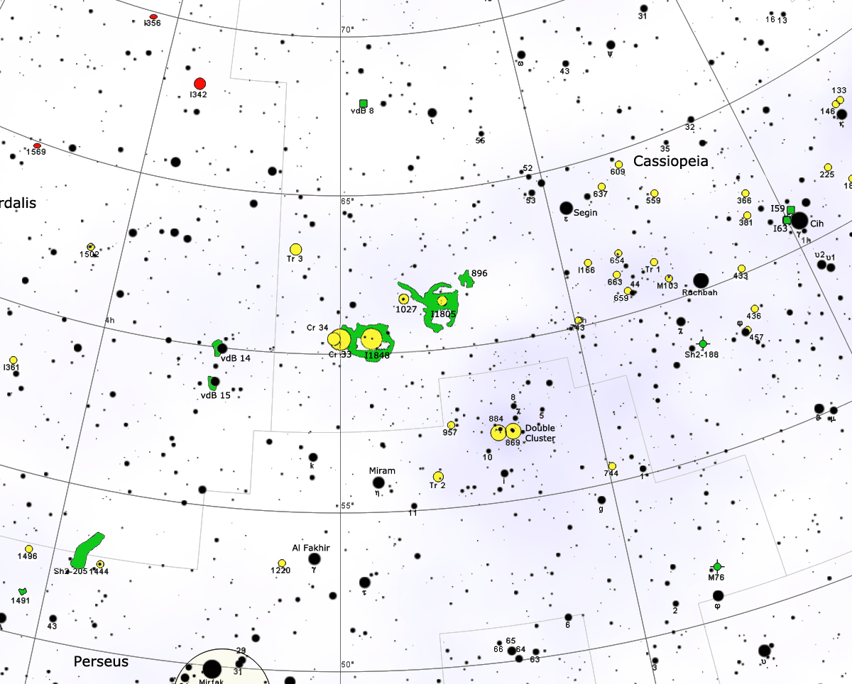 Map of W3-W4-W5 star forming region